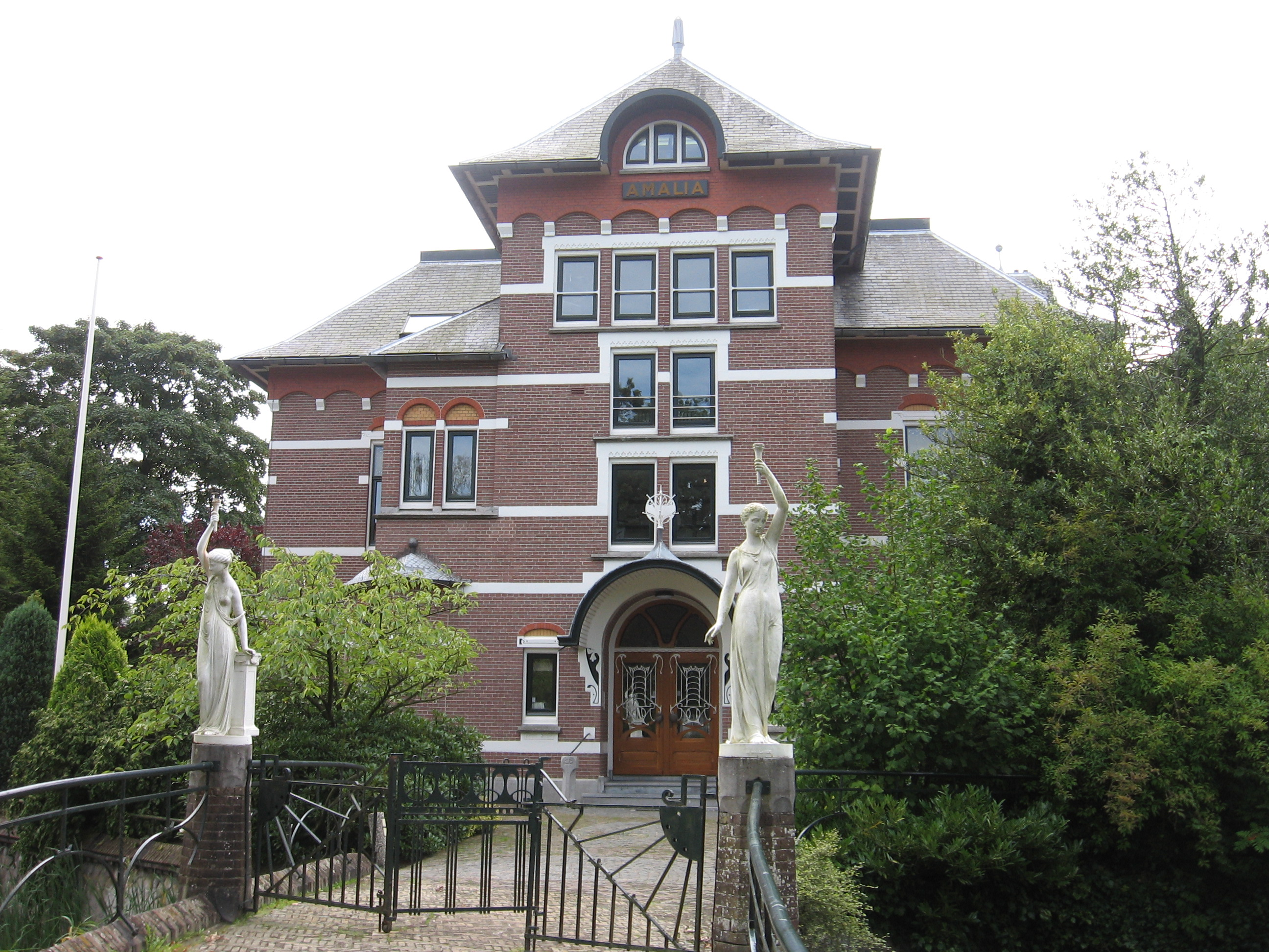 Villa Amalia